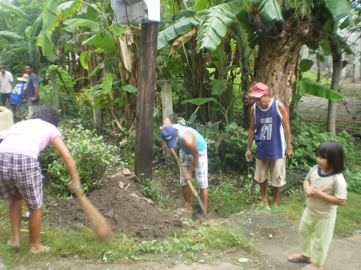 everyone helping